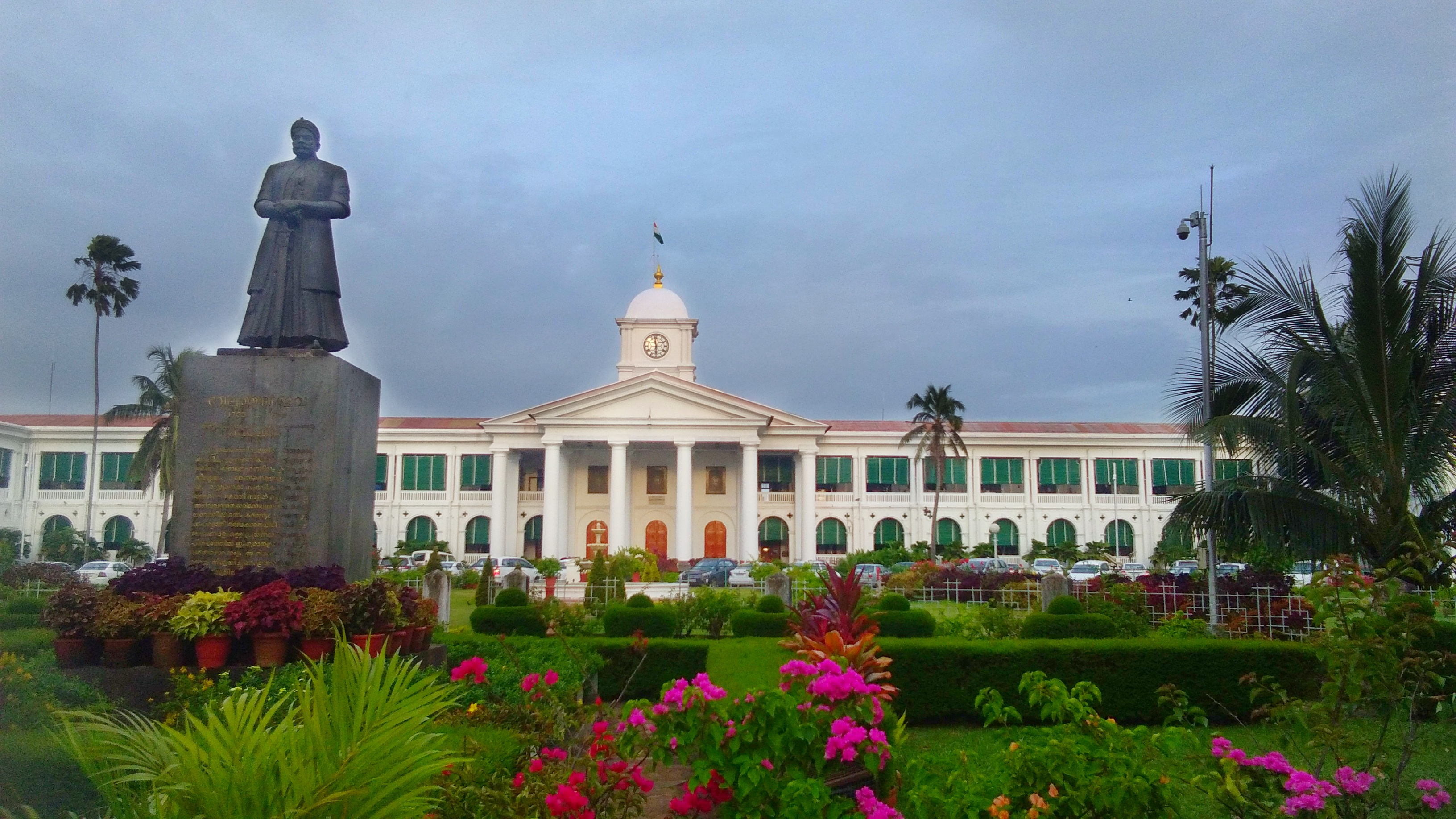 Government Secretariat front view.